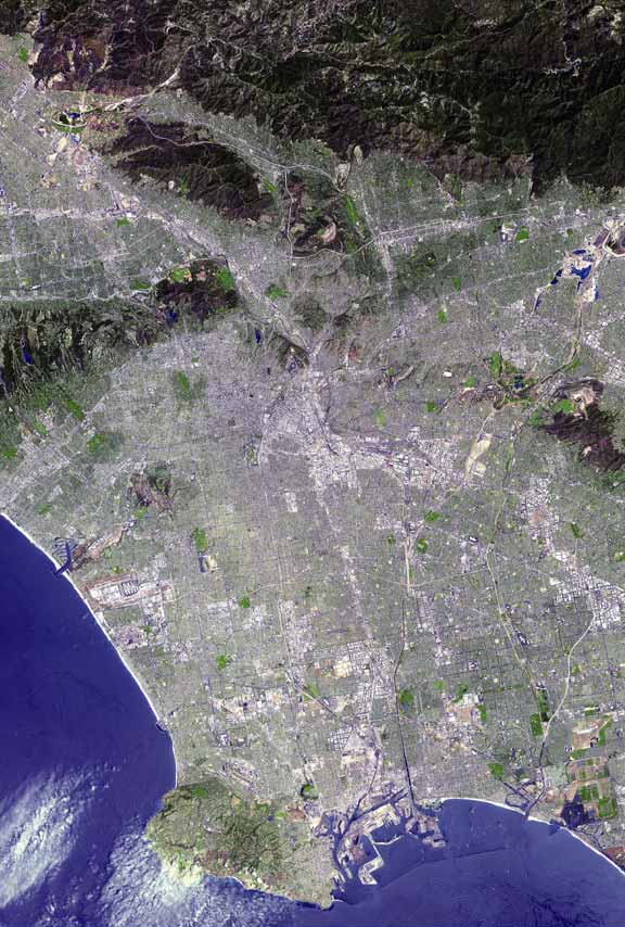 Satellite view of Los Angeles and Los Angeles County — in Southern California. Including: the Los Angeles River (from eastern San Fernando Valley to mouth in Long Beach); the Verdugo Mountains and eastern Santa Monica Mountains; the Palos Verdes Peninsula; and South Bay region.. Credits The raw satellite imagery shown in these images was obtain from NASA and/or the US Geological Survey. Post-processing and production by